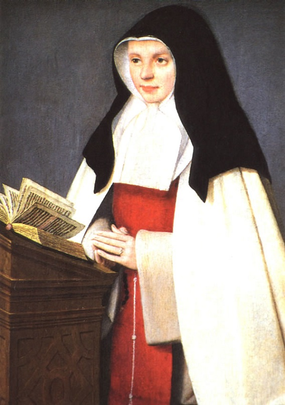 Portrait of St. Joan of Valois (1464-1505)